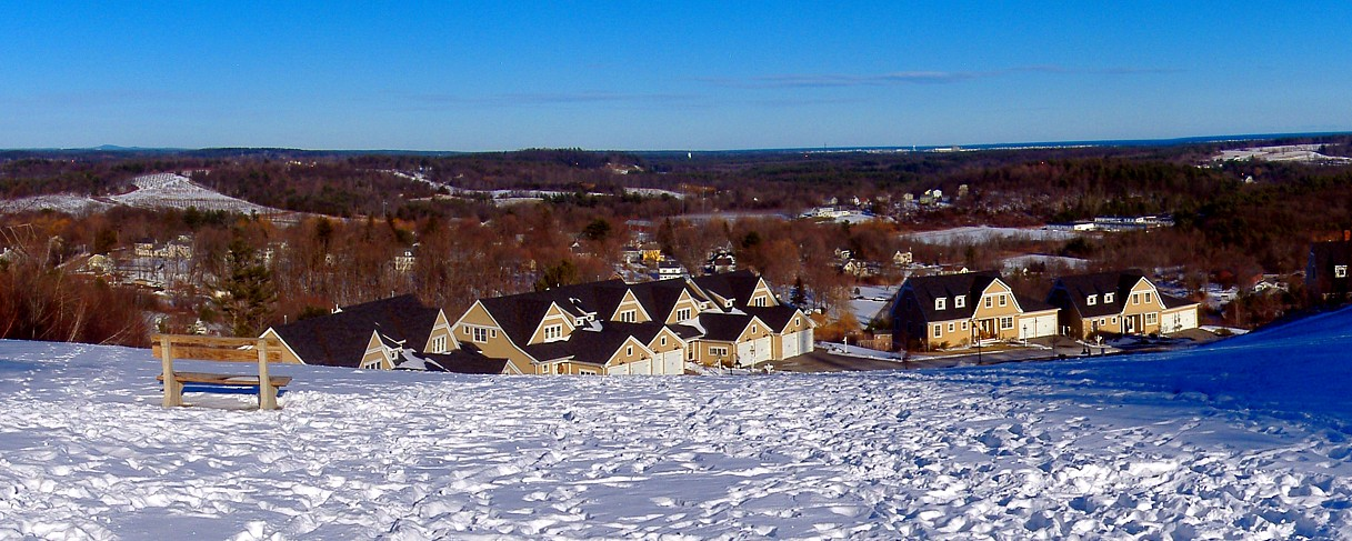 Panoramic view to the North and East from Powwow Hill in Amesbury, Massachusetts. The tan buildings in the foreground are the Atlantic View condominiums (also on Powwow Hill). In the background to the far left is Mount Agamenticus in York, Maine. The built-up, populated area along the Atlantic Ocean to the right consists of Hampton Beach and Seabrook Beach, New Hampshire. In the middle of Hampton and Seabrook Beach is the Seabrook Station Nuclear Power Plant.